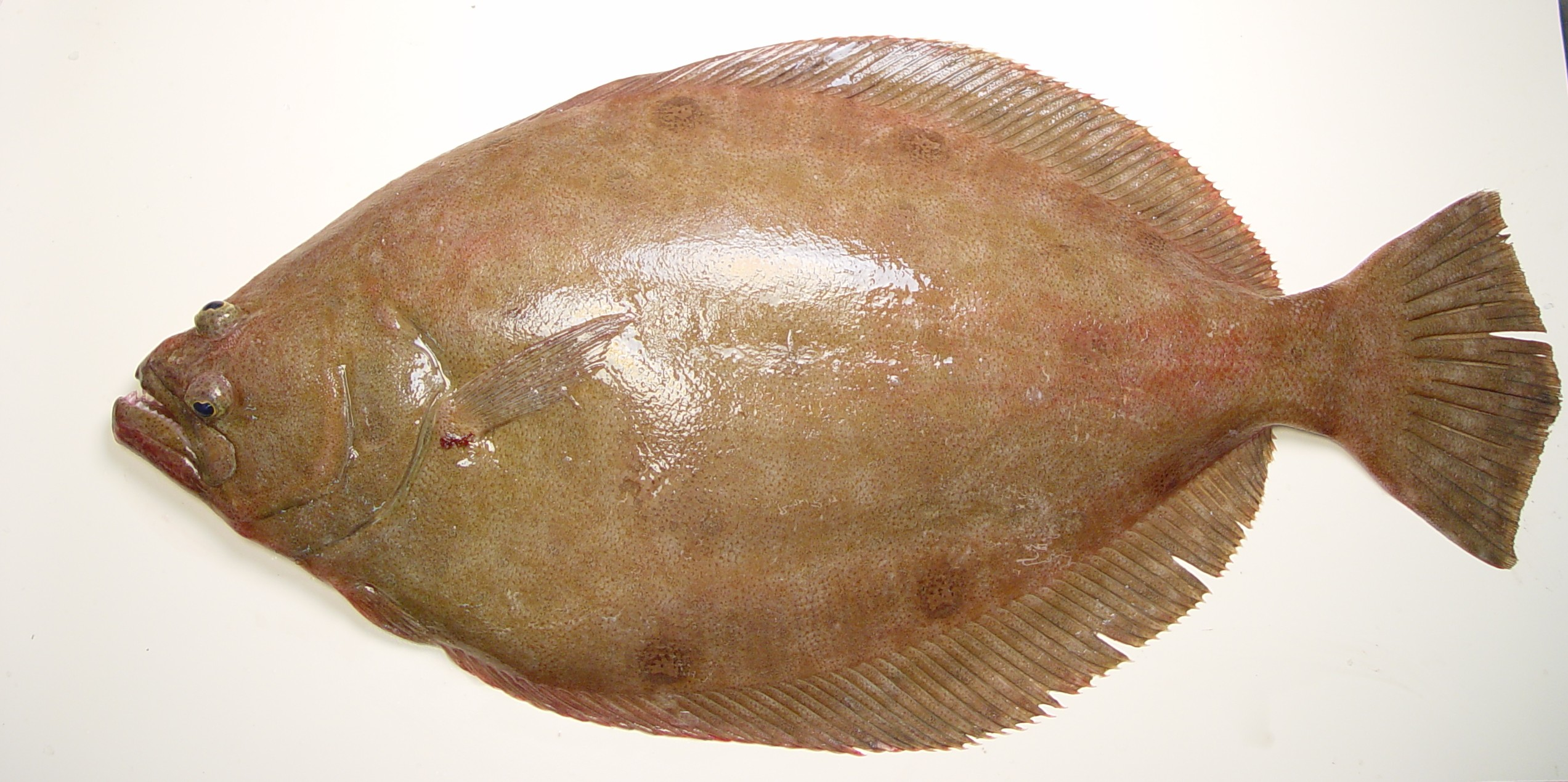 Paralichthys squamilentus from the Gulf of Mexico